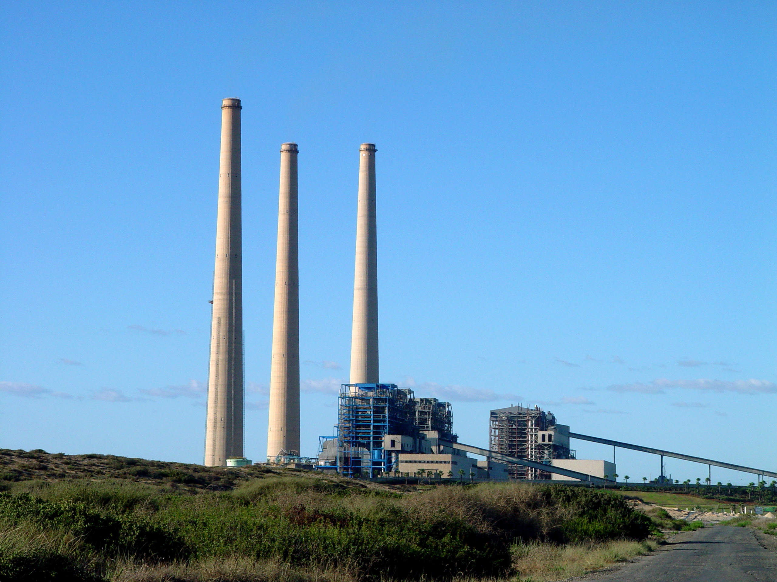 Hadera power station, Israel.